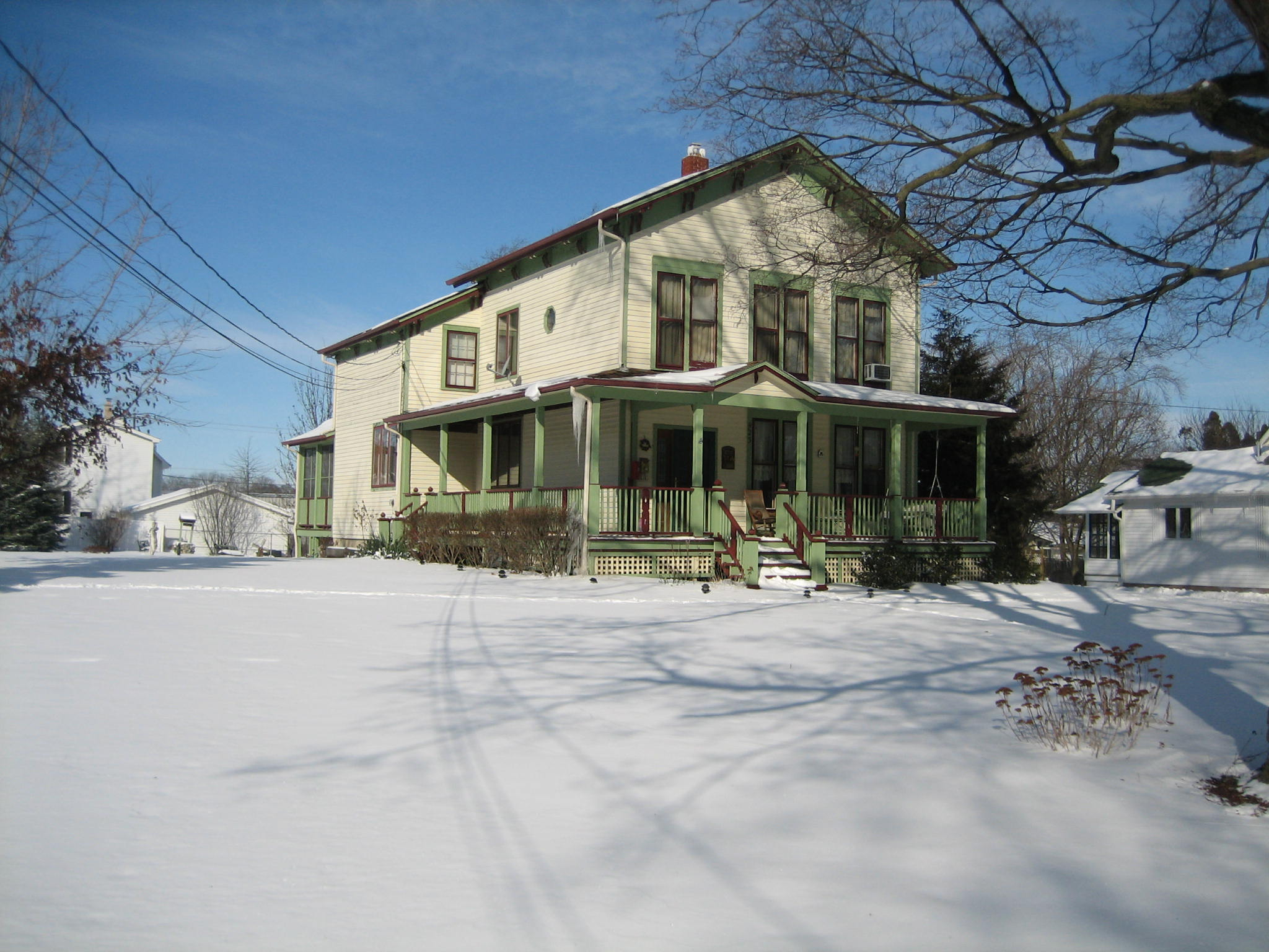 423 California St., General Daniel Dustin House, Sycamore, Illinois, Sycamore Historic District. National Register of Historic Places